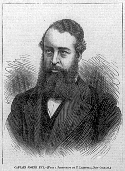 Captain Joseph Fry, a sea captain involved in the Virginius Affair. Fry was born on June 14, 1826 in Tampa Bay, Florida. Member of the second graduating class of the U.S. Naval Academy and served in the U.S. Navy for 15 years, before joining the Confederacy during the American Civil War. Fry was promoted to Commodore in the Confederate Navy.